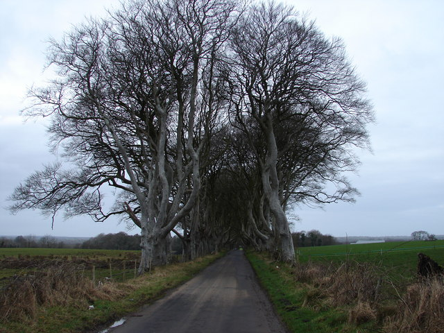 Dark Hedge, Bregagh Road Looking from the 'Outside' These trees look totally different once you walk 'inside'. Despite the fact that there were no leaves on the trees, some of the other pictures in this grid square demostrate just how thick the branches are, seemingly blocking the sky from view altogether.